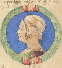 Alda Rangoni, wifw of Aldobrandino II d'Este